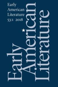 Cover of the Spring 2018 issue.